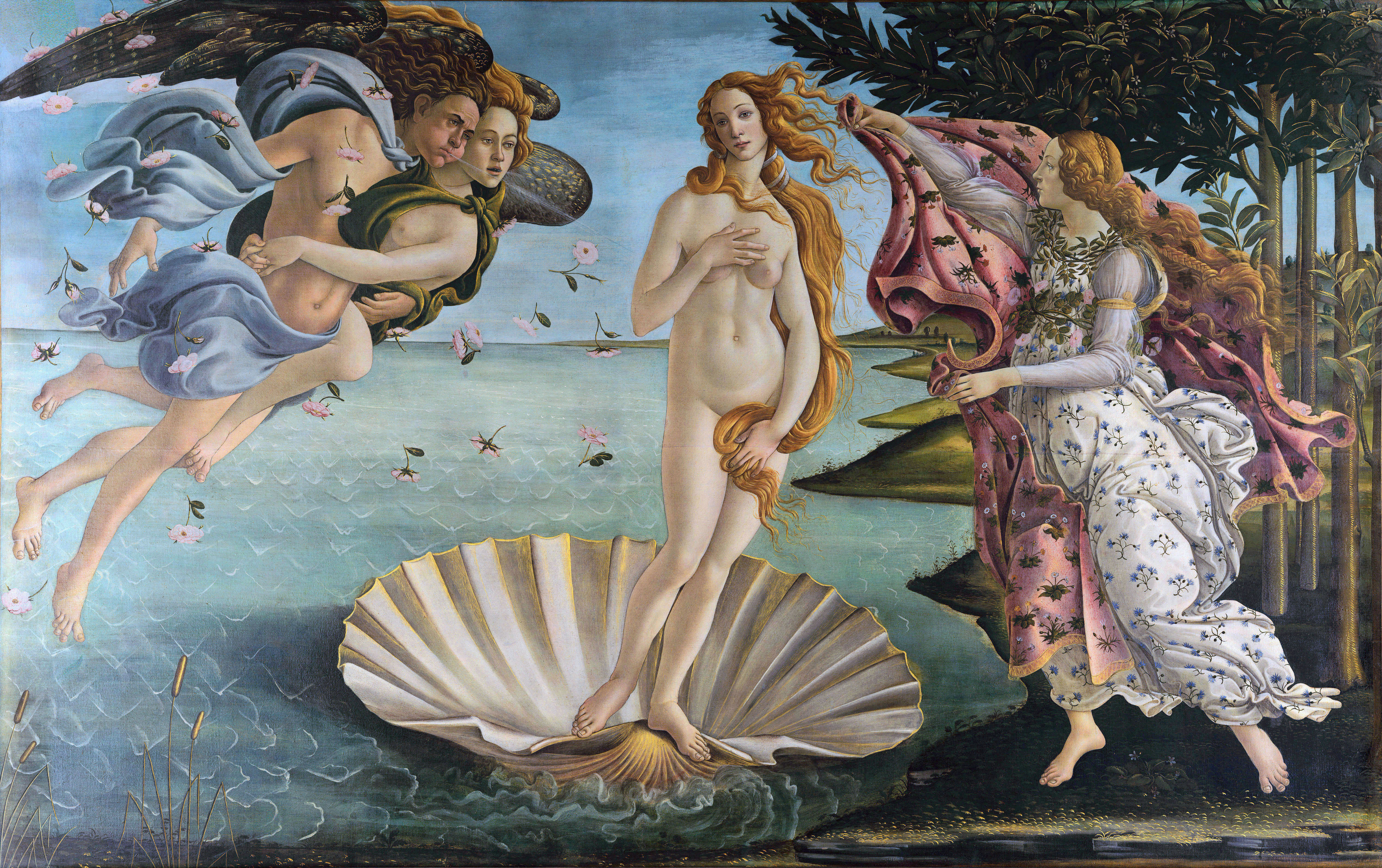 Depicts the goddess Venus, having emerged from the sea as a fully grown woman, arriving at the sea-shore. The seashell she stands on was a symbol in classical antiquity for a woman's vulva. Thought to be based in part on the Venus de' Medici, an ancient Greek marble sculpture of Aphrodite.